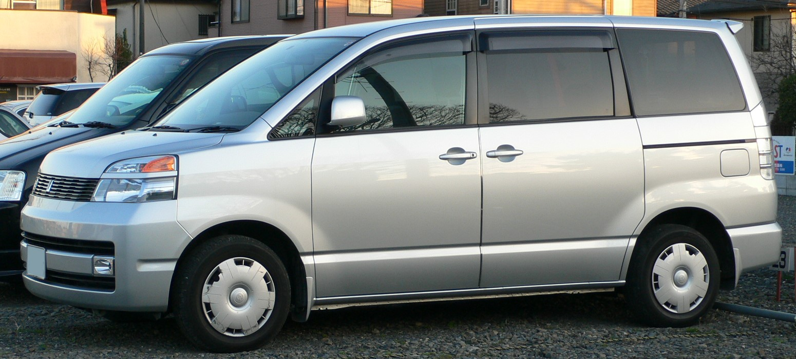 1st generation Toyota Voxy (Nov 2001 - Aug 2004)